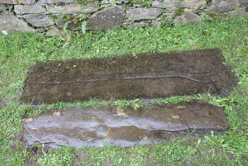 Kildalton Church, Kildalton, Islay, Argyll and Bute, Scotland. Grave slab, Graham no.93